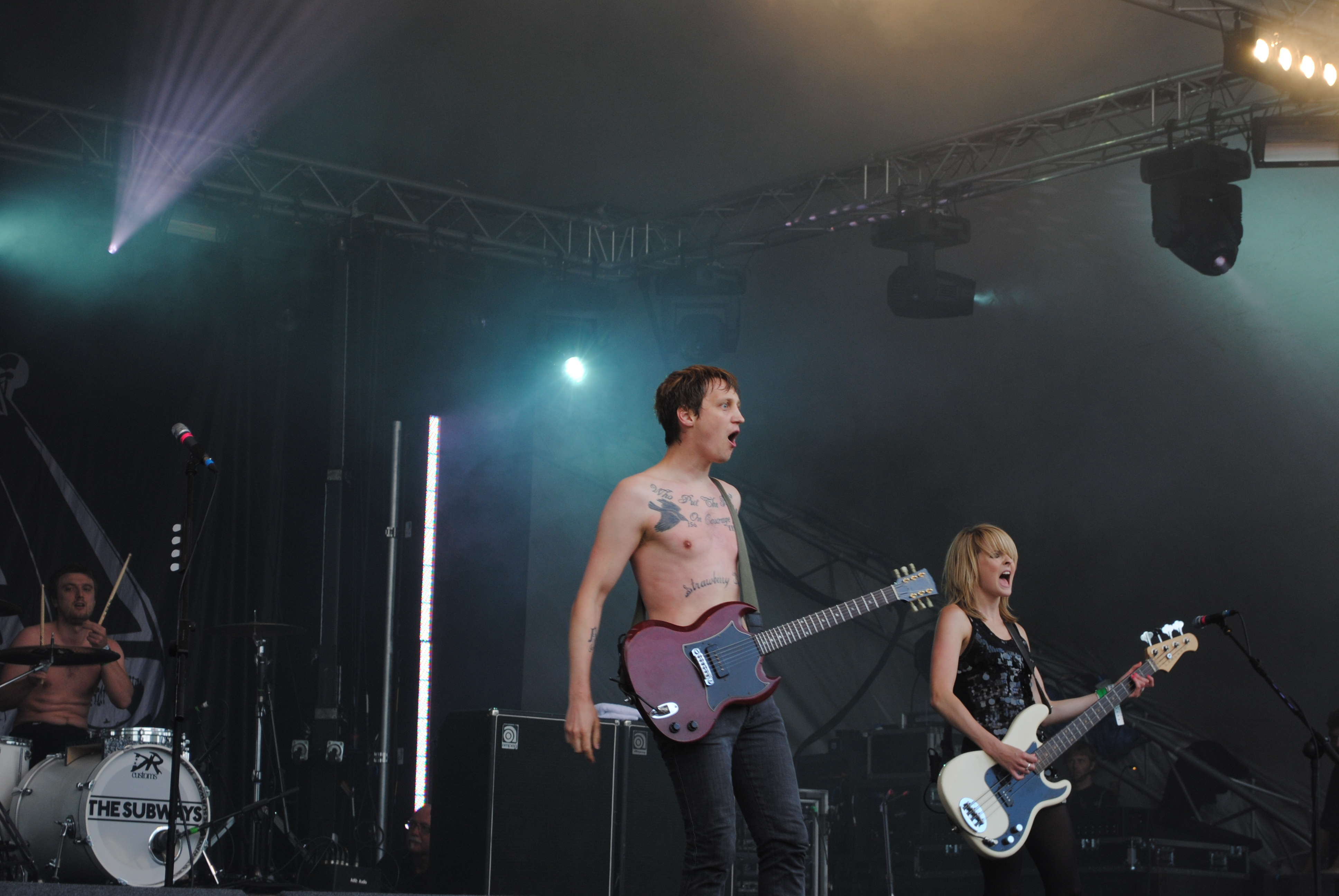 The Subways at Kendal Calling 2010